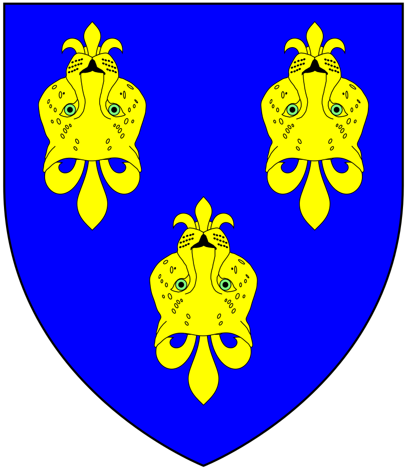 Arms of Cantilupe of Hempston Cantelow (now Broad Hempston) in Devon: Azure, three leopard's faces jessant-de-lys or. These arms are today quartered by Sackville (formerly Sackville-West), Earl De La Warr, Viscount Cantelupe, etc., heirs of Cantilupe. (Kidd, Charles, Debrett's peerage & Baronetage 2015 Edition, London, 2015, p.P336)